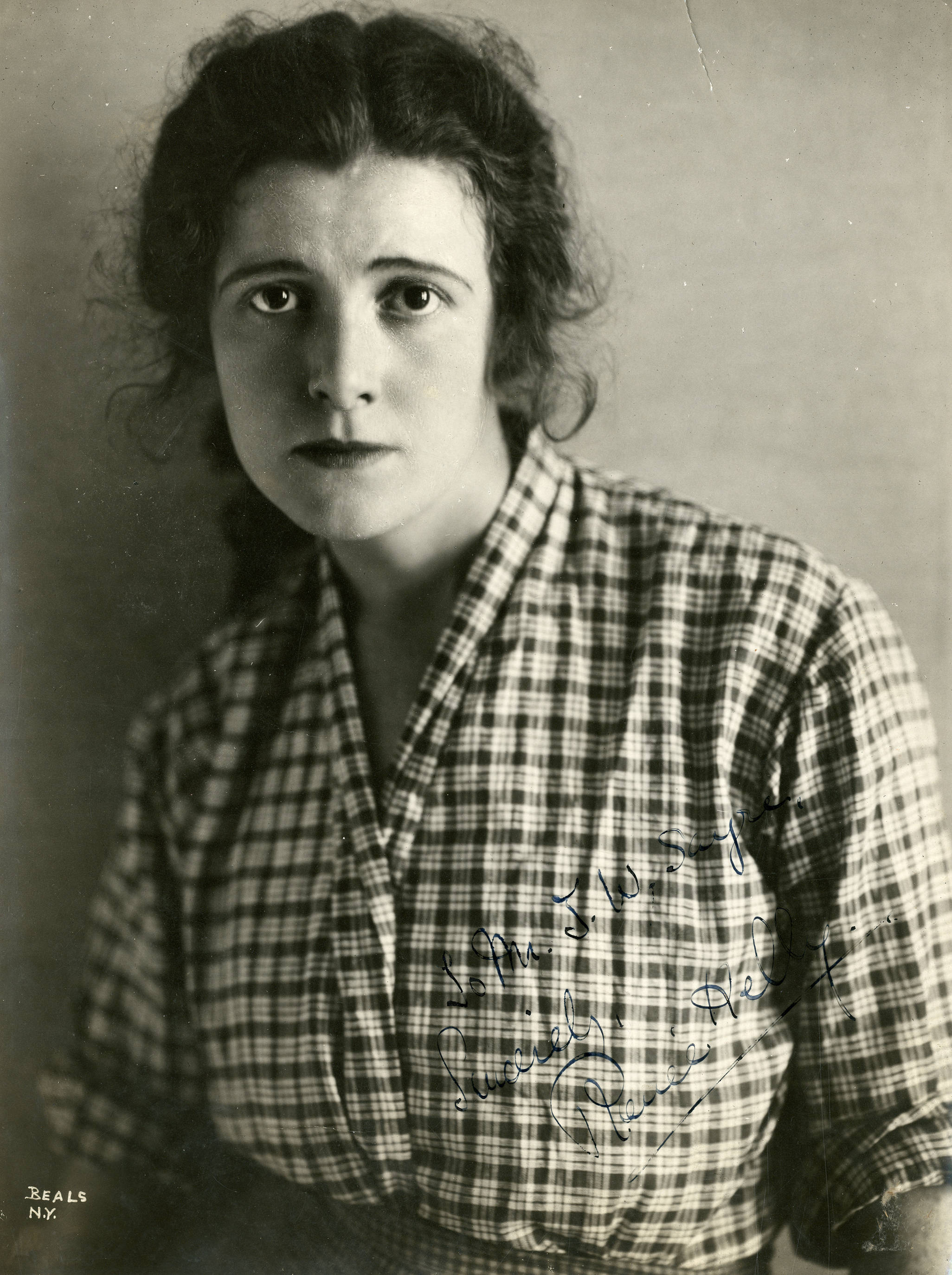 Renee Kelly, stage actress Subjects: actresses